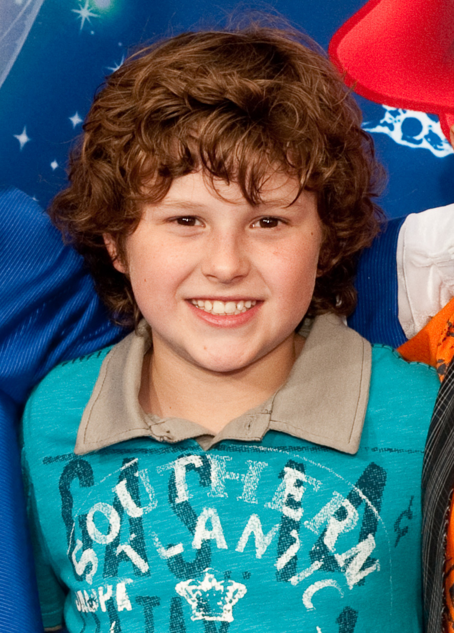 Actor Nolan Gould at World of Color Premiere at Disney California Adventure Park in 2010.